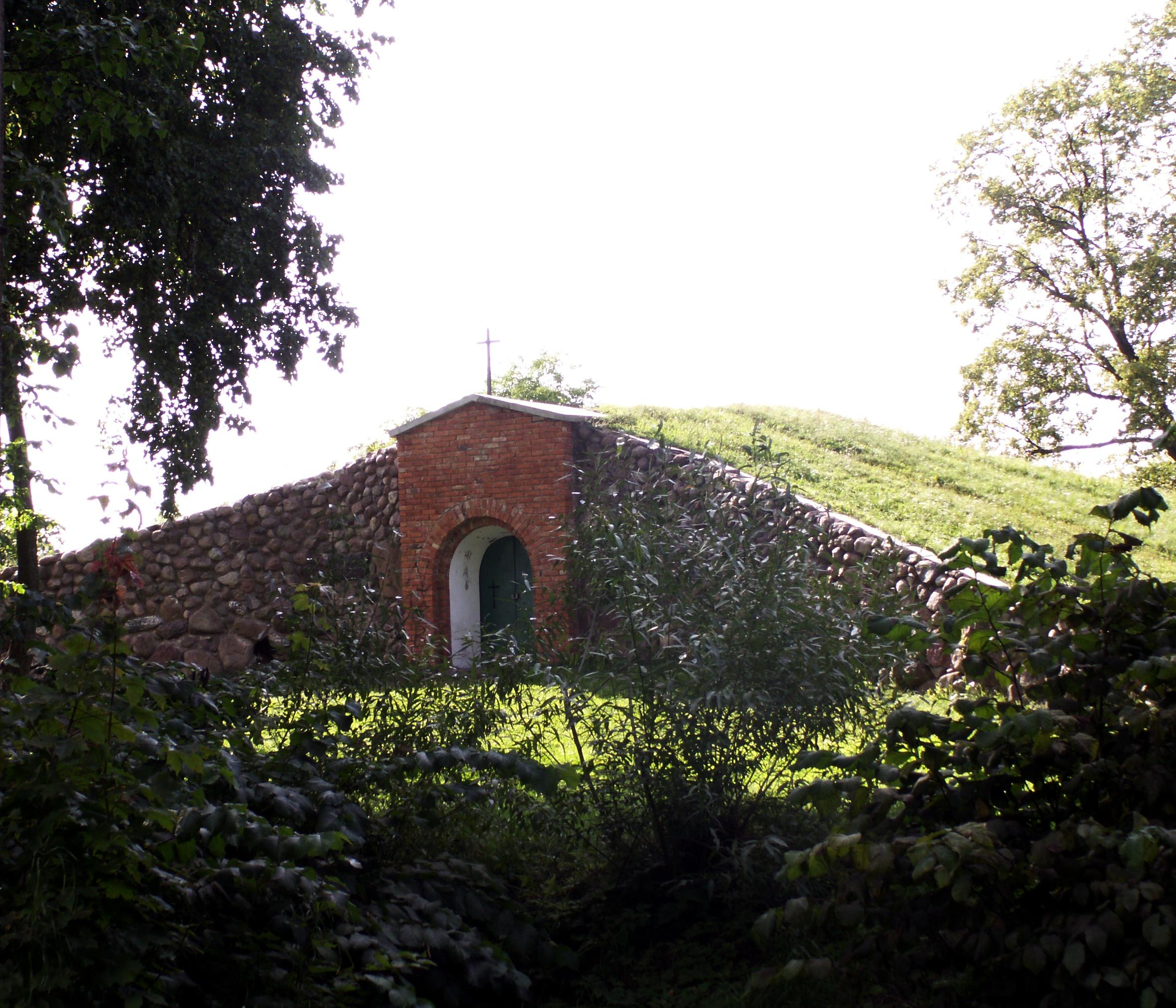 Rėkyva, tomb of Karpiai family, Lithuania